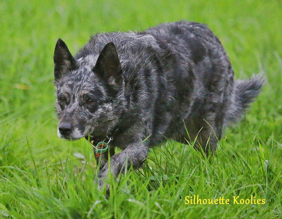 Blue Merle Koolie (Australian Koolie / German Coolie)